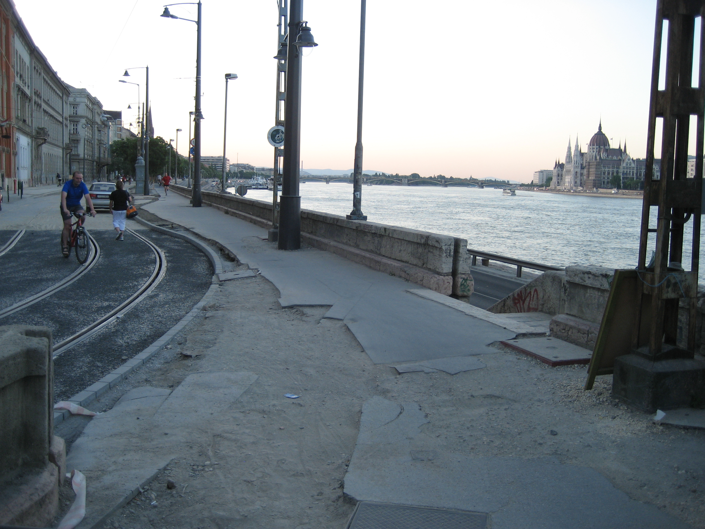 Danube bikeway, Budapest, Hungary